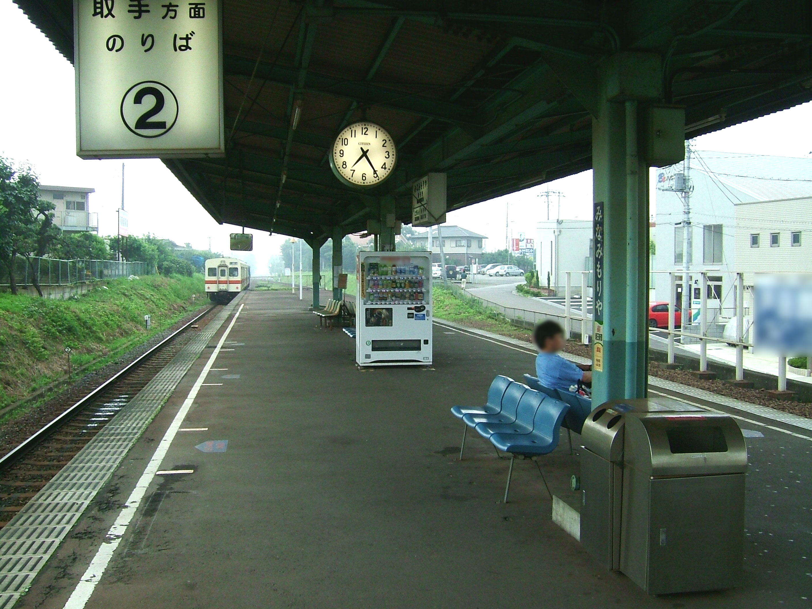 Minami-Moriya Station platform (Kanto Railway Jōsō Line)